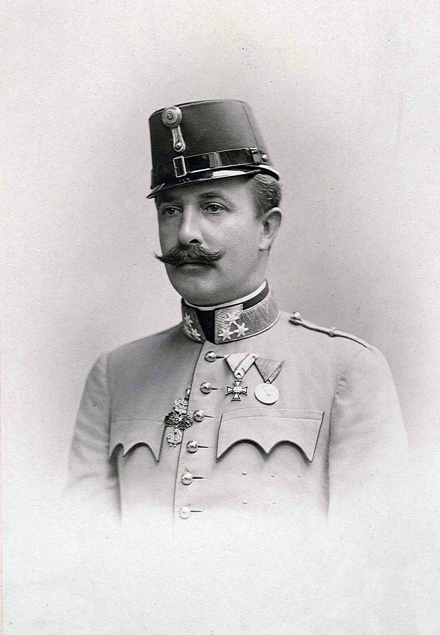 Archduke Otto of Austria (1865-1906)